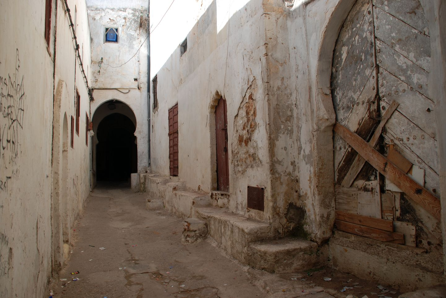 Salé, Morocco, Medina